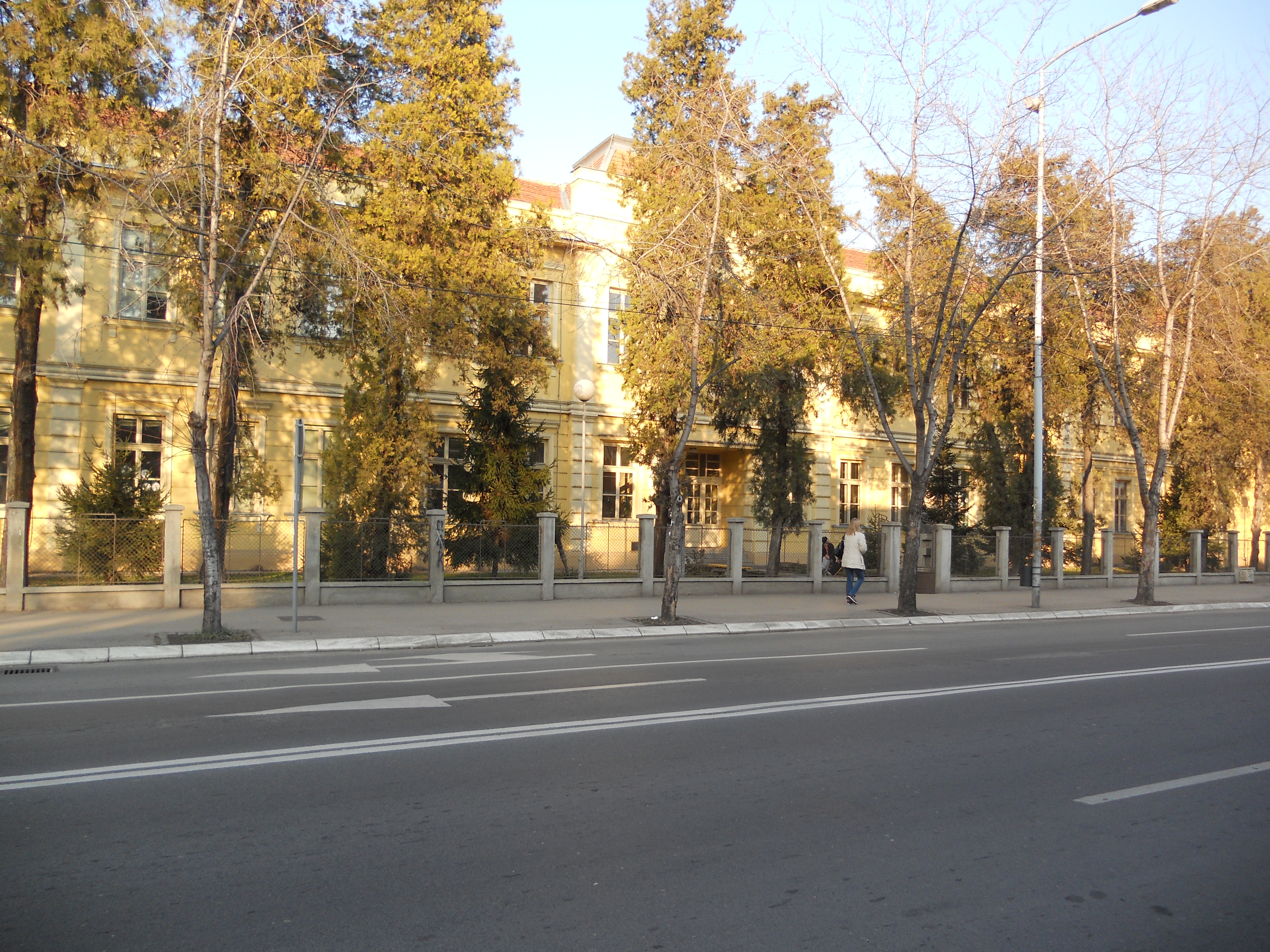 Elementary School "Vožd Karađorđe", Niš, Serbia. Српски (ћирилица): Основна школа „Вожд Карађорђе” у Нишу, Србија.